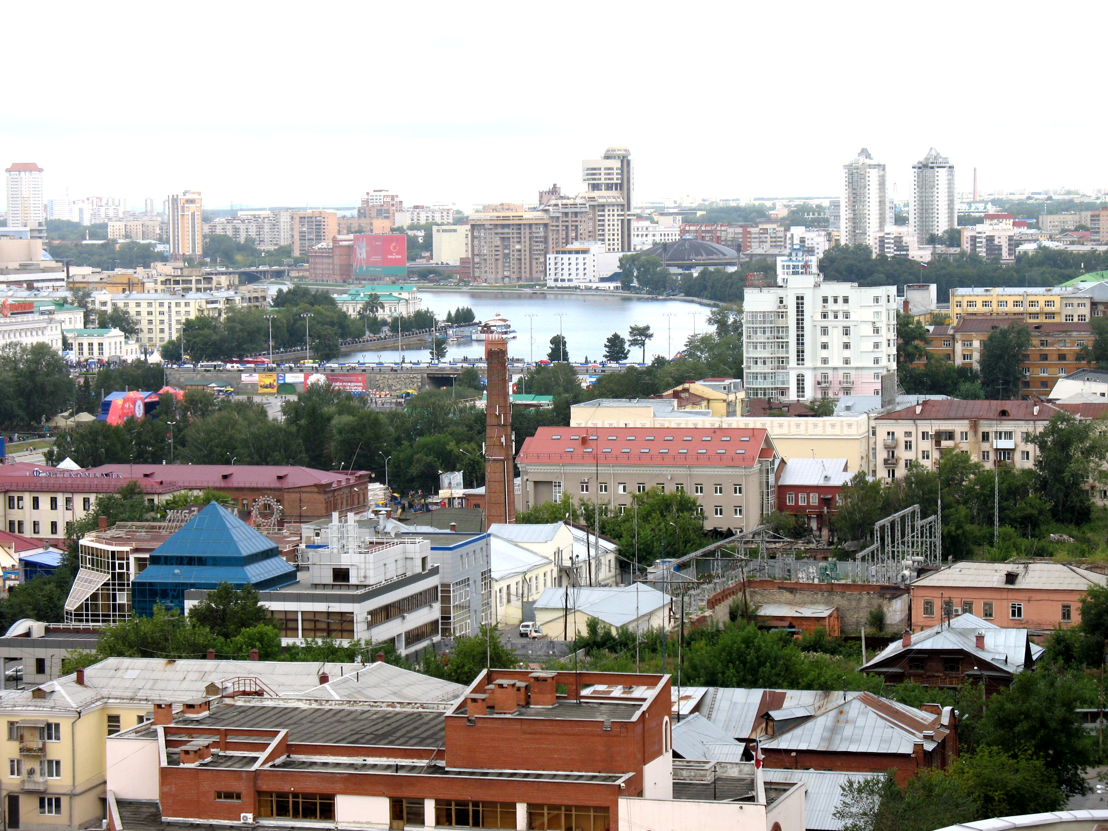 City view of Yekaterinburg, Russian Federation